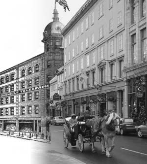 This photo montage shows where the Quebec Chronicle-Telegraph office building was located, at 27 Buade Street, in Quebec City, Quebec, Canada. Note that the Chronicle-Telegraph sign is hidden beneath an awning on 'du Tresor Street'.